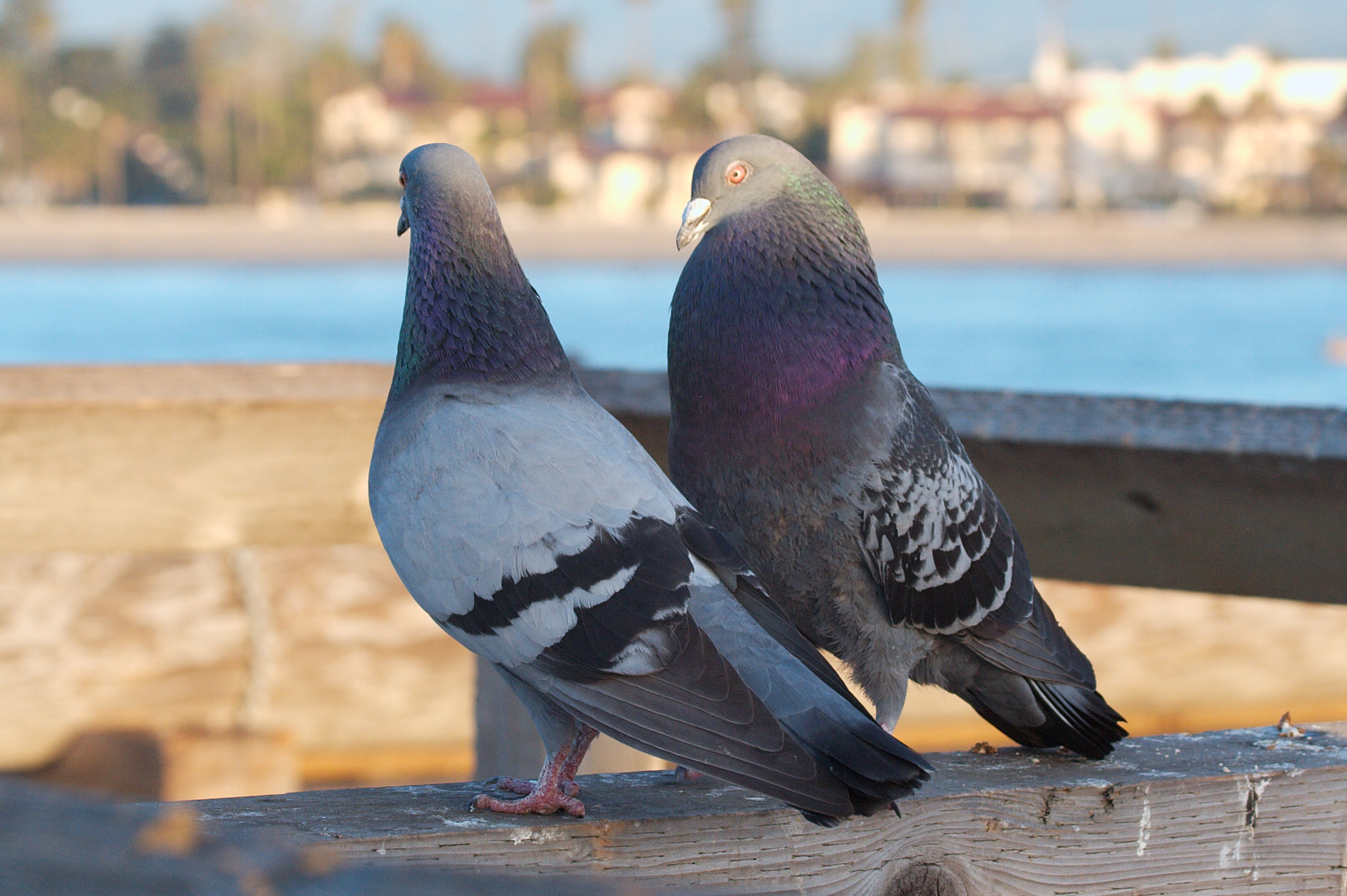 Rock pigeons (Columba livia) courting, taken in Santa Barbara, California